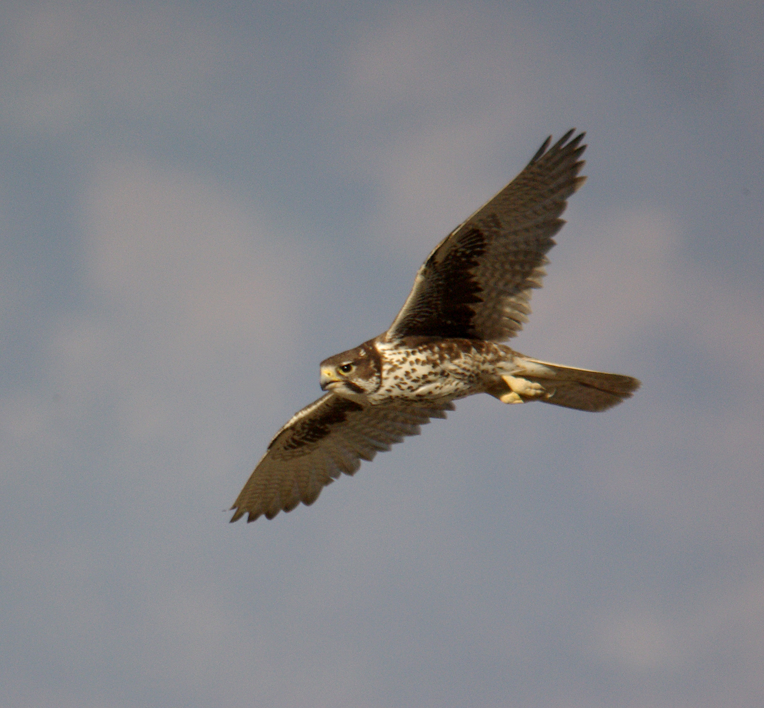 CALIFORNIA - BIRDS of San Luis Obispo Co